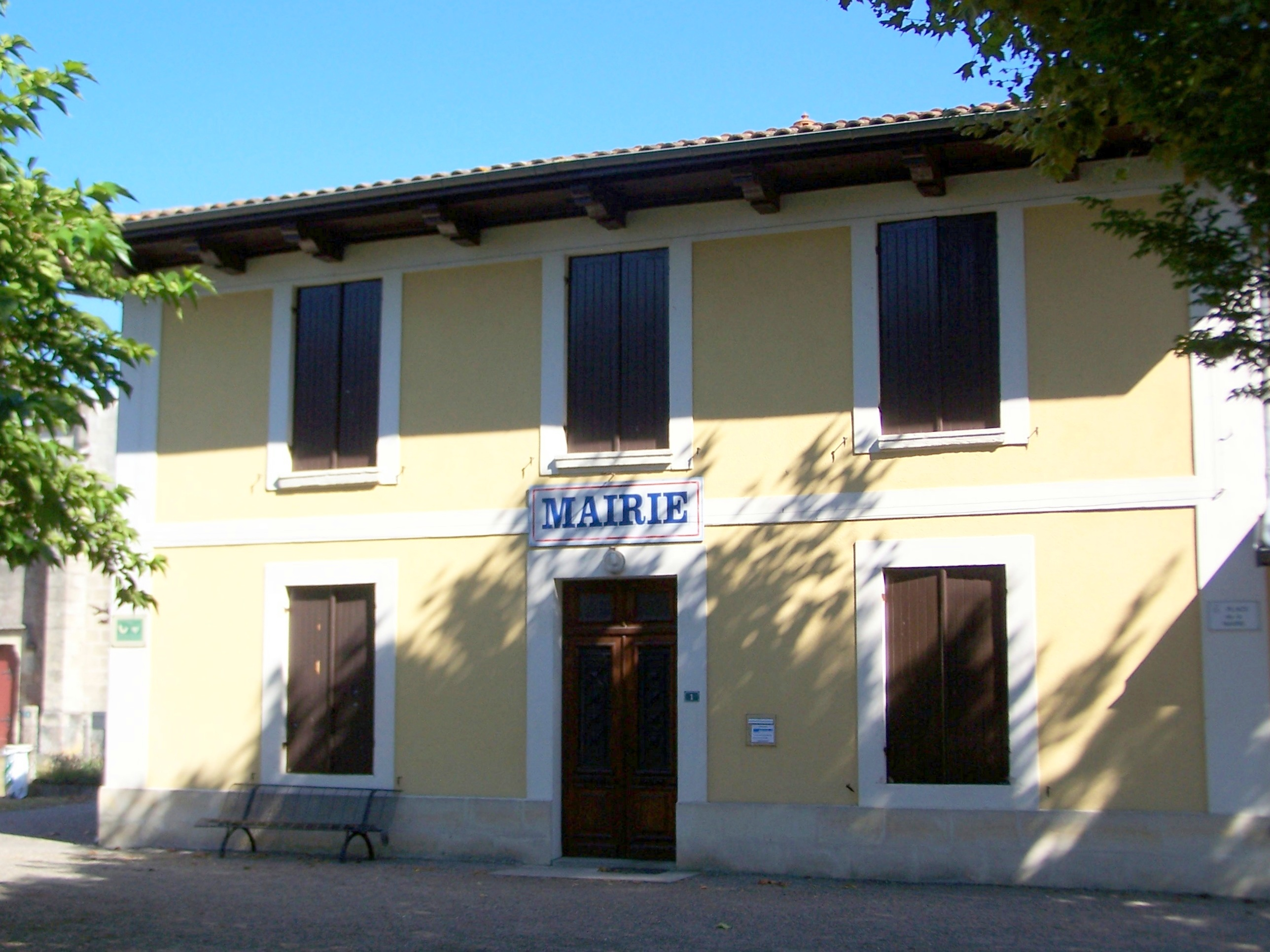 Former town hall of Saint-Magne (Gironde, France)